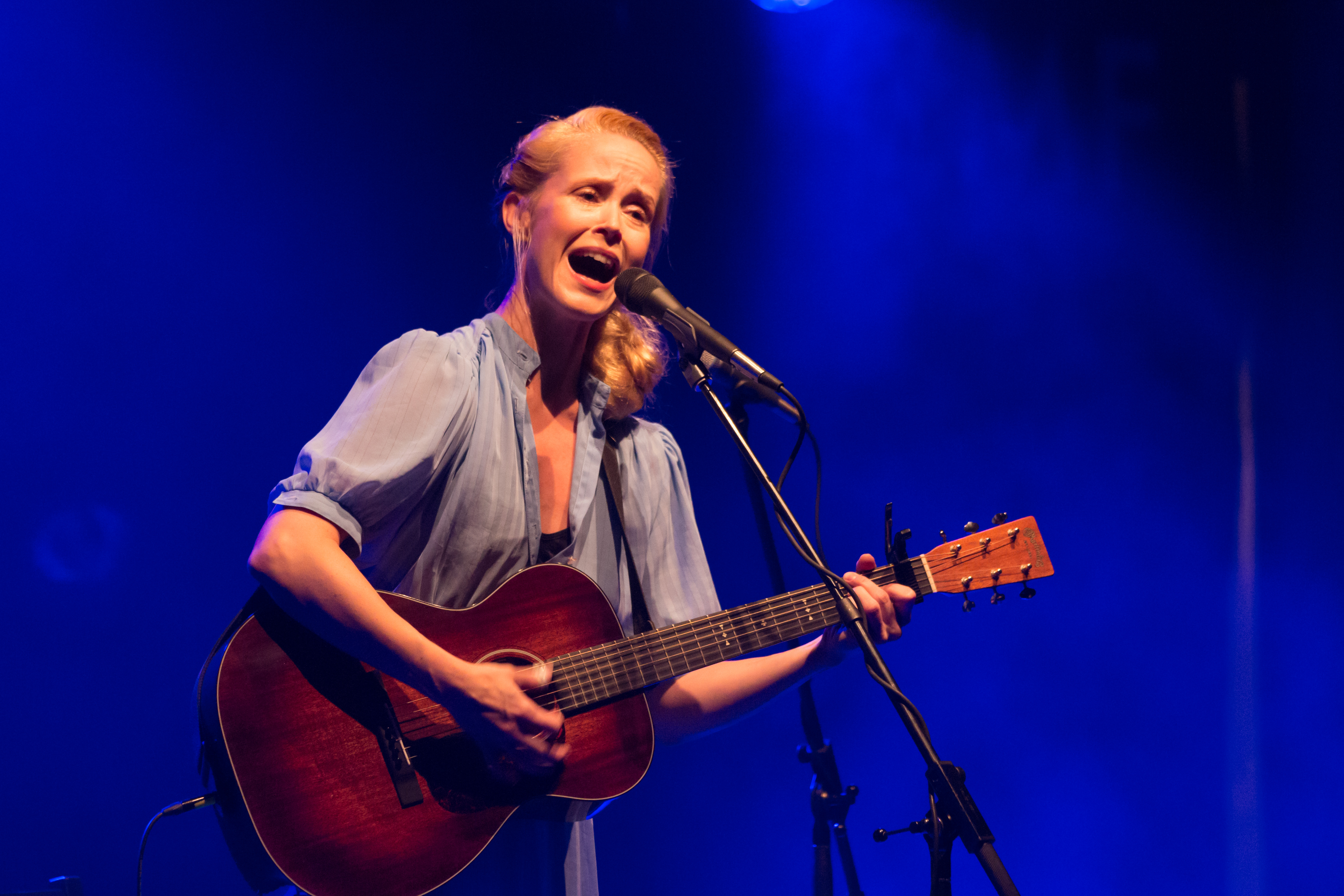 Tina Dico performing at the ZMF Freiburg on July 2nd, 2015.